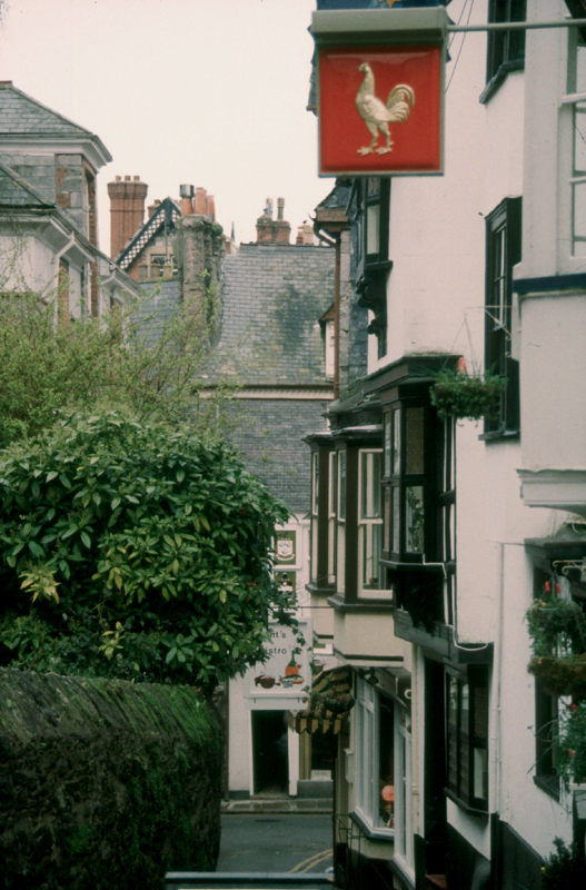 Dartmouth, town in Devon in the south-west of England; picturesque old town